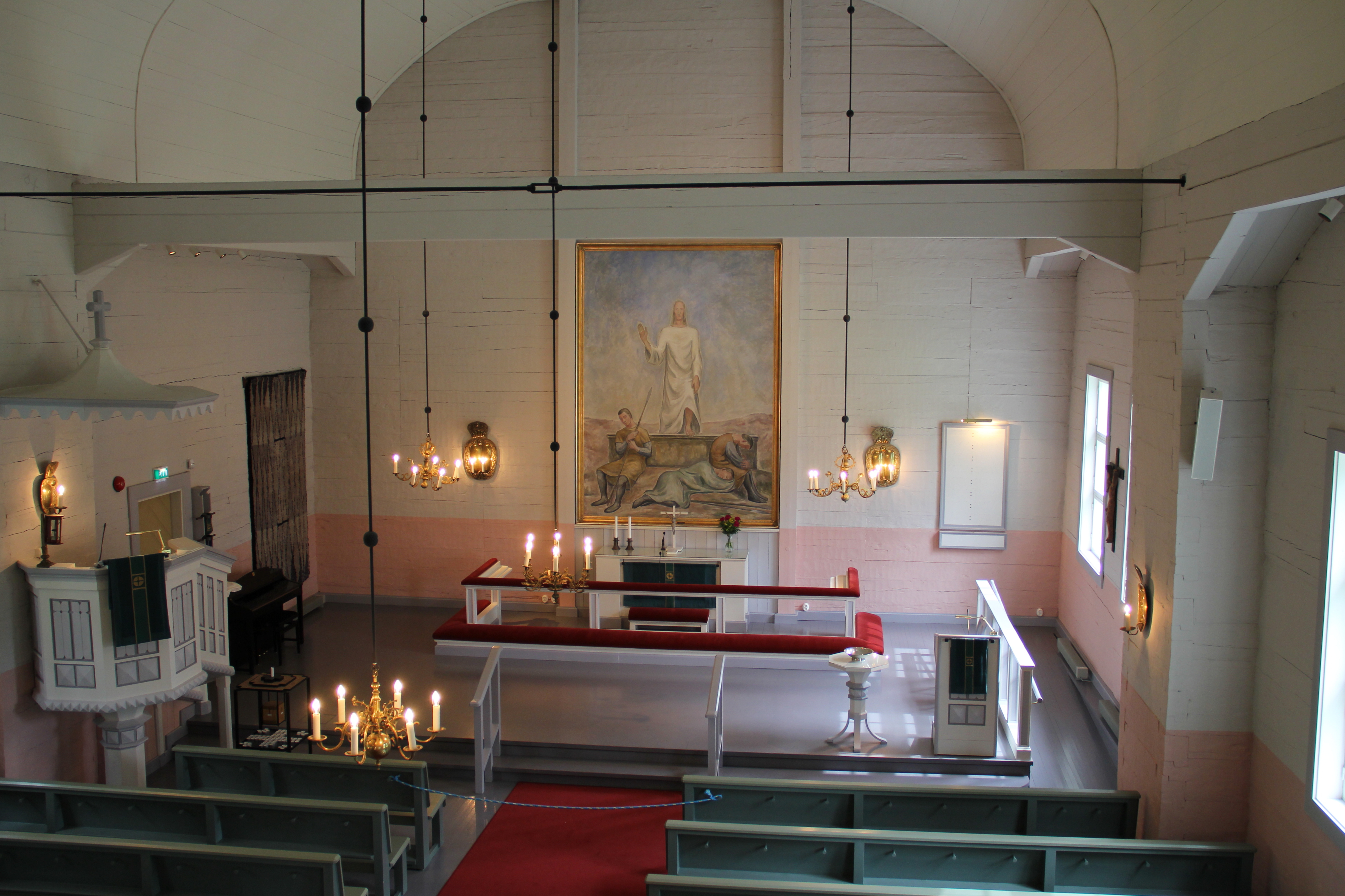 Utajärvi church, Utajärvi, Finland. - Altar seen from organ balcony.